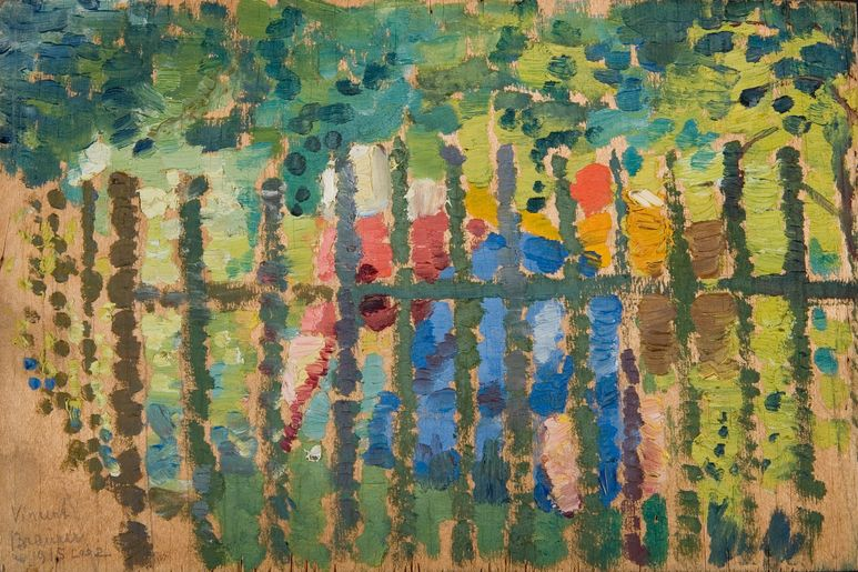 Landscape